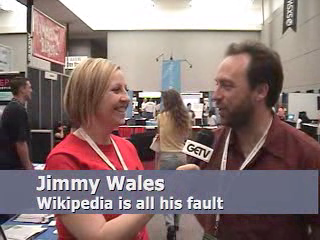 Irina Slutsky interviewing Jimmy Wales at SxSW 2006.